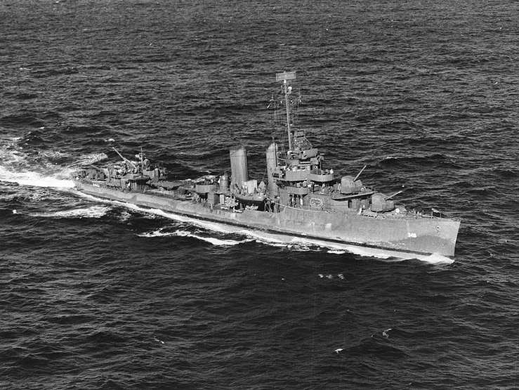 The U.S. Navy destroyer USS Farragut (DD-348) underway at sea in December 1943.